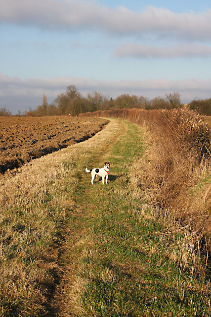 Footpath to Lawshall Green This path, part of the St Edmund Way long-distance walk, leads to Lawshall Green, a small hamlet of some ten houses.